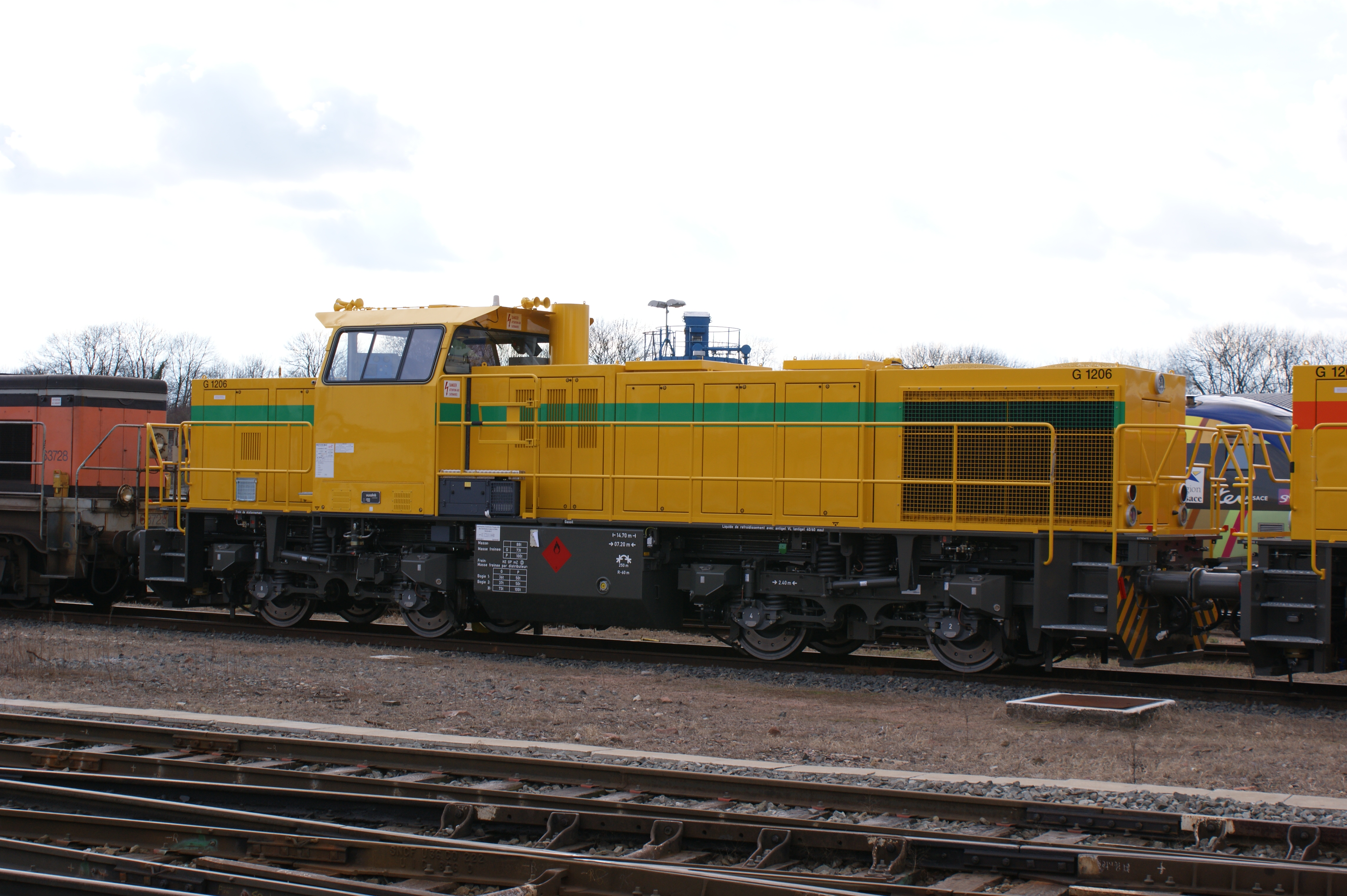 Angel Trains Cargo G1206 Class, built by Vossloh, 2,000 hp B-B diesel hydraulic No.G1206 at Strasbourg, 3/09. The same as the SNCF BB 61000 Class. Angel Trains hired 10 locos to Fret SNCF in 2000 and then in 2007-08 to Voies Ferrees Locales et Industrialles (VFLI) for use in the Strasbourg area.